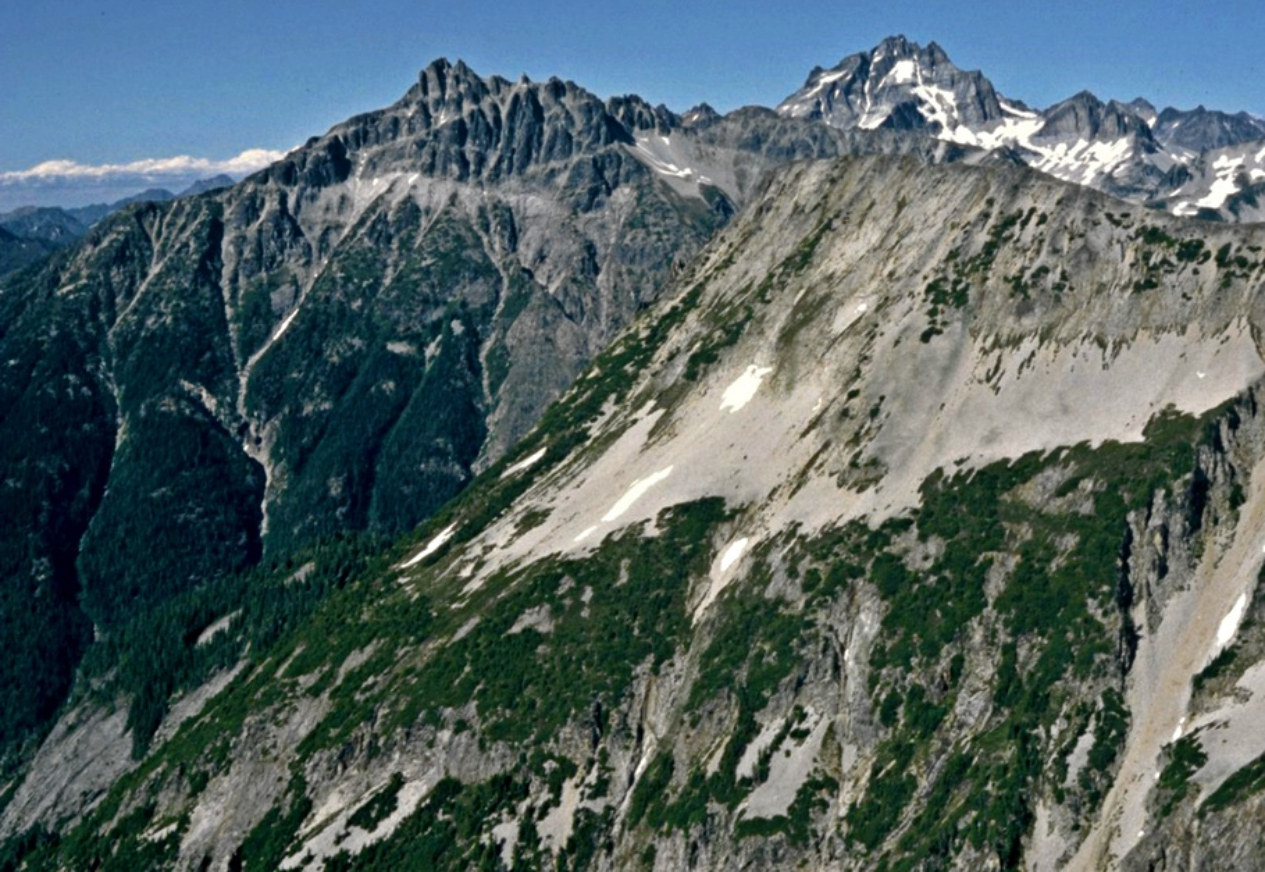 Bear Mountain and Mount Redoubt in the North Cascades of Washington state.